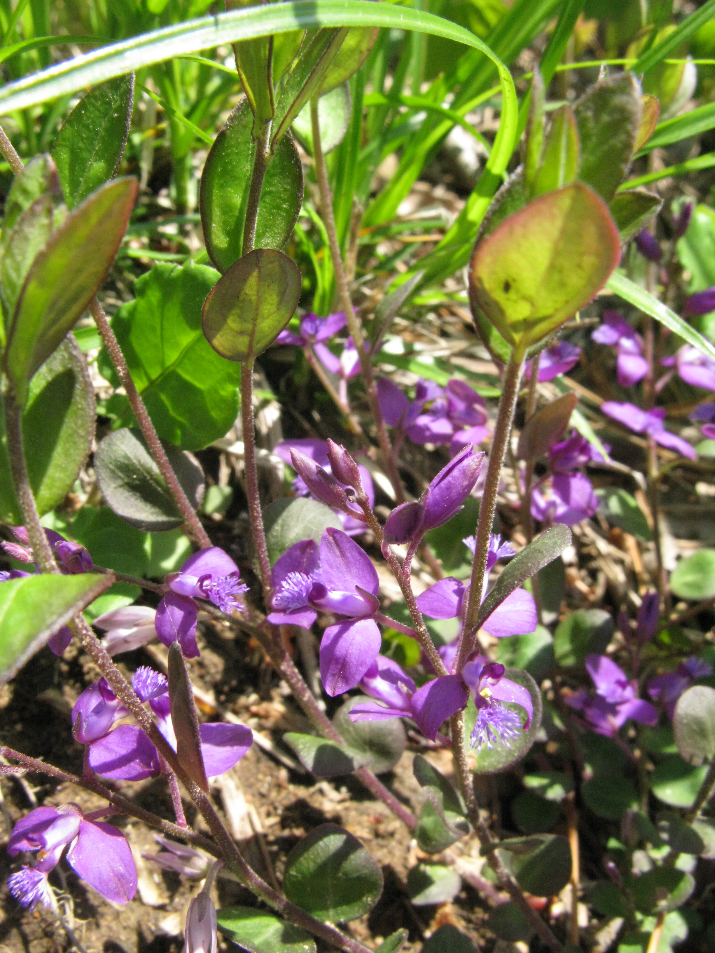 Polygala japonica, Aizu area, Fukushima pref., Japan